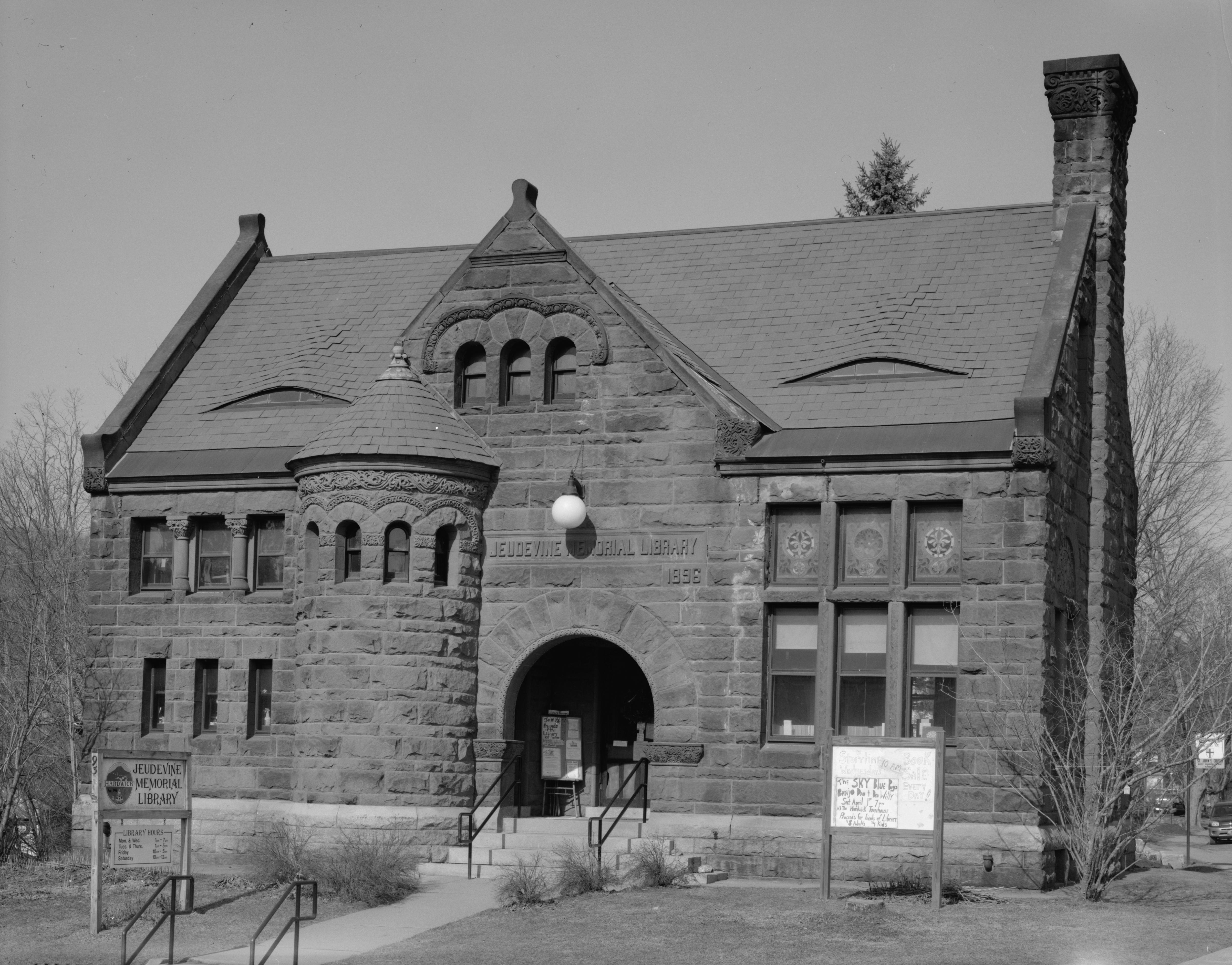 Front of Jeudevine Memorial Library, located at 93 N. Main Street in Hardwick, Vermont, United States. Built in 1896, it is part of the Downtown Hardwick Village Historic District, a historic district that is listed on the National Register of Historic Places.